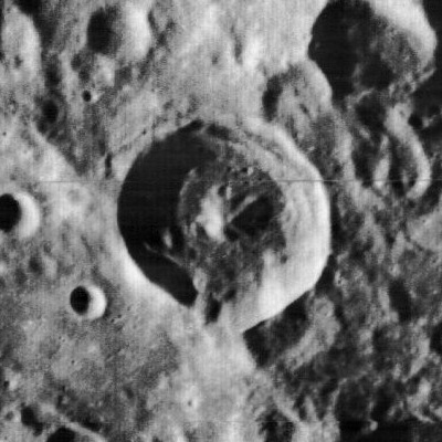 Crater Bok on the far side of the Moon.